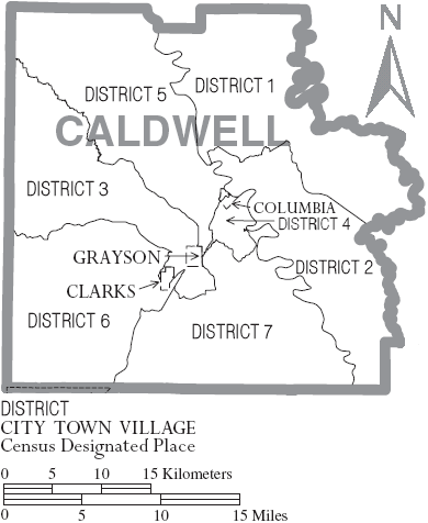 Map of Caldwell Parish, Louisiana, United States with municipal and district boundaries